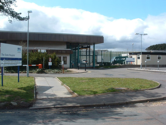 Carstairs State Hospital. The closest I've been, honest.